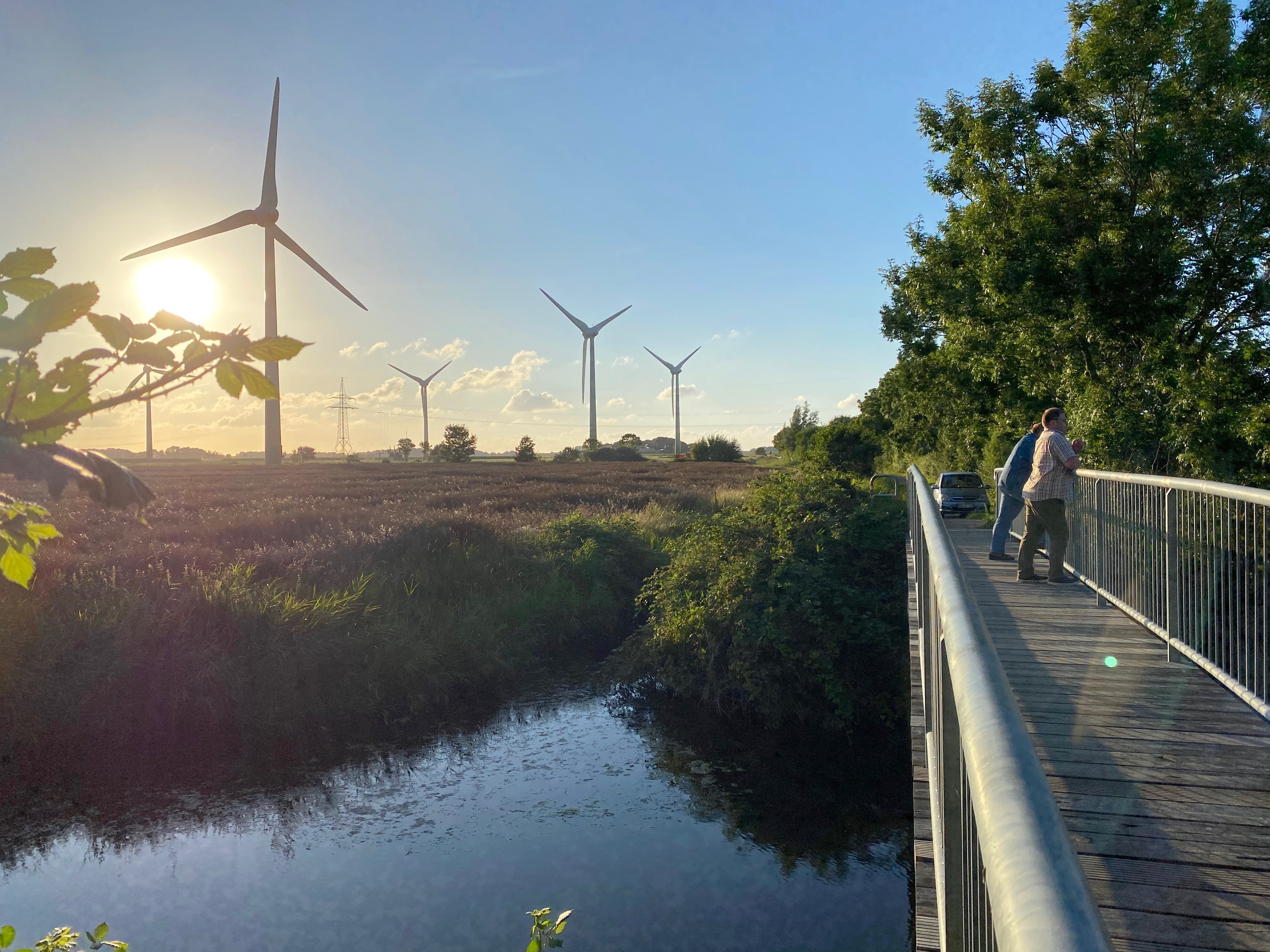 Norden (Ostermarsch), Germany: The footbridge over the «Marschdeep» in Oostermarch at the confluence with the Schiffschloot